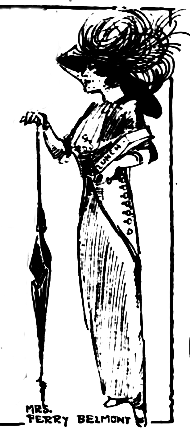 Jessie Ann Robbins (Mrs. Perry Belmont) in 1912 sketch by Marguerite Martyn at Democratic National Convention